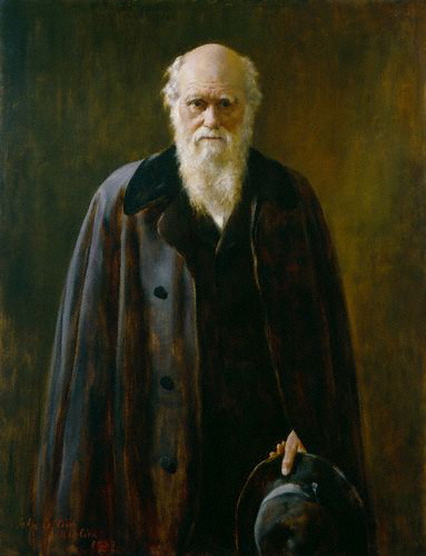 A copy made by John Collier in 1883 of his 1881 portrait of Charles Darwin. According to Darwin's son Erasmus, "The picture is a replica of the one in the rooms in the Linnaean Society and was made by Collier after the original. I took some trouble about it and as a likeness it is an improvement on the original."